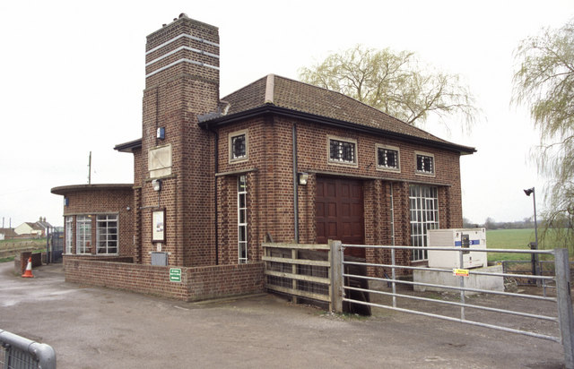 Curry Moor Pumping Station, Athelney, Somerset